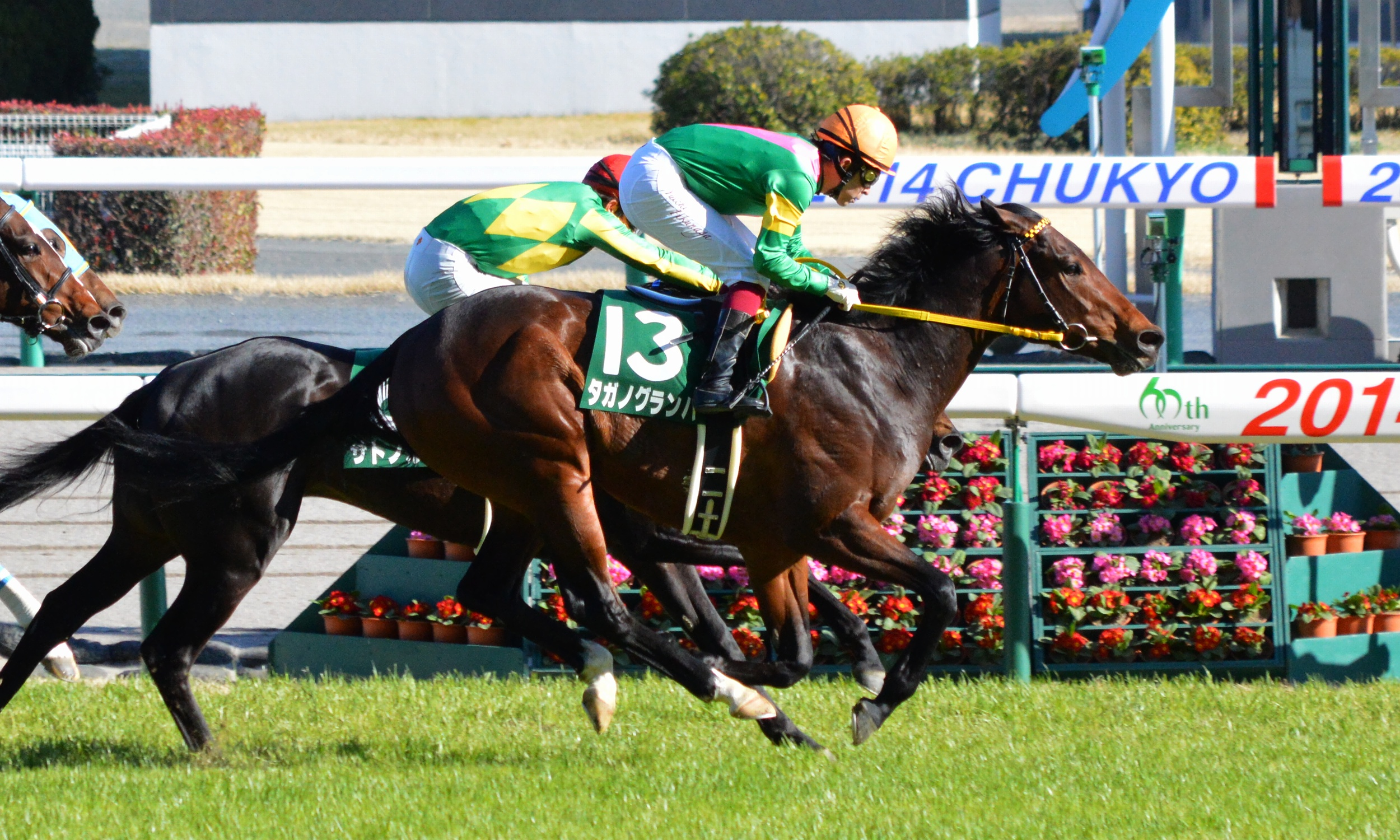 Japanese race horse Tagano Grandpa at Chukyo racecourse.